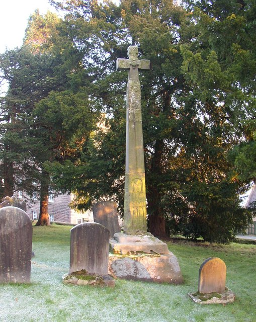 Halton Cross This has been assembled from pieces of the original cross. Pevsner states that it is of the 11C, and it includes motifs from the Sigurd saga.